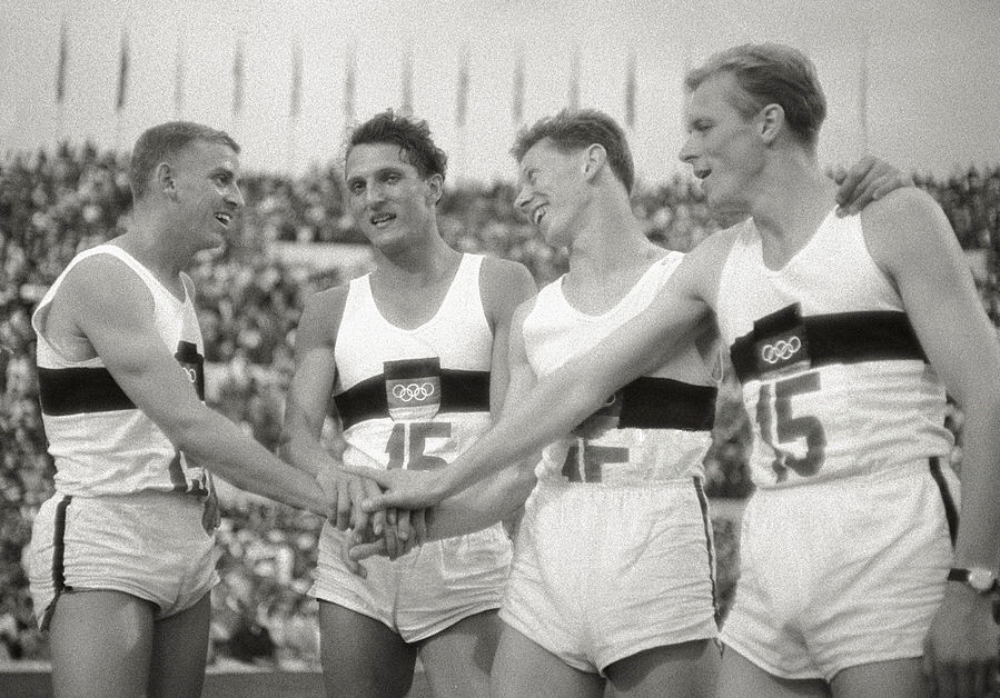 Left-right: Armin Hary, Martin Lauer, Bernd Cullmann, Walter Mahlendorf at the 1960 Olympics